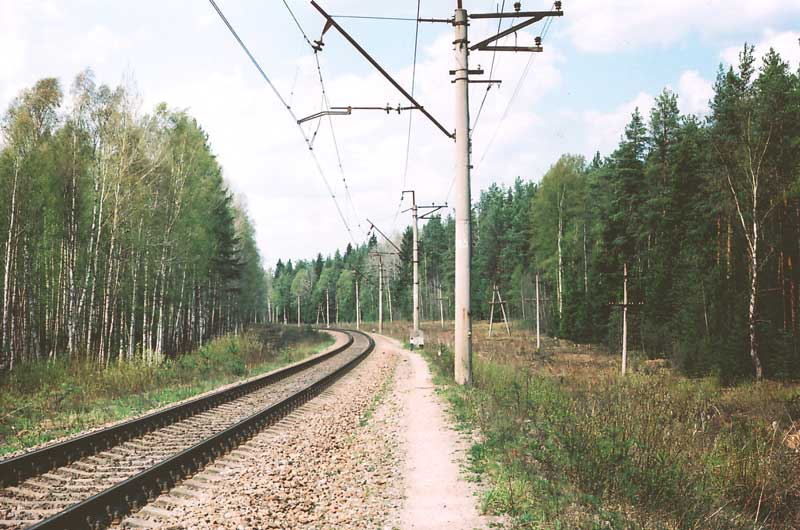 St. Petersburg–Kuznechnoye railway, May 2006